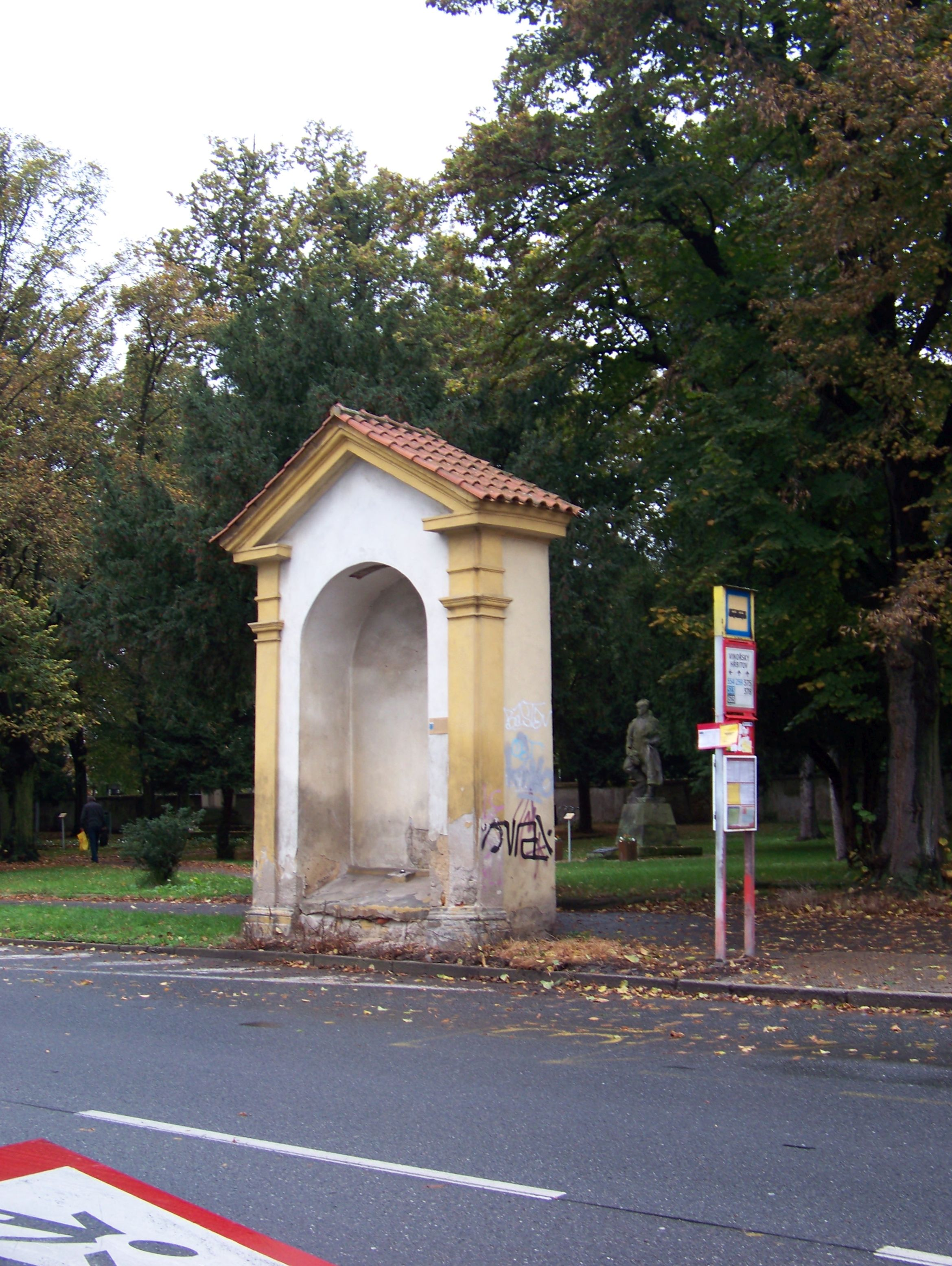 Prague-Vinoř, Czech Republic. Mladoboleslavská street, a chapel nearby the cemetery.